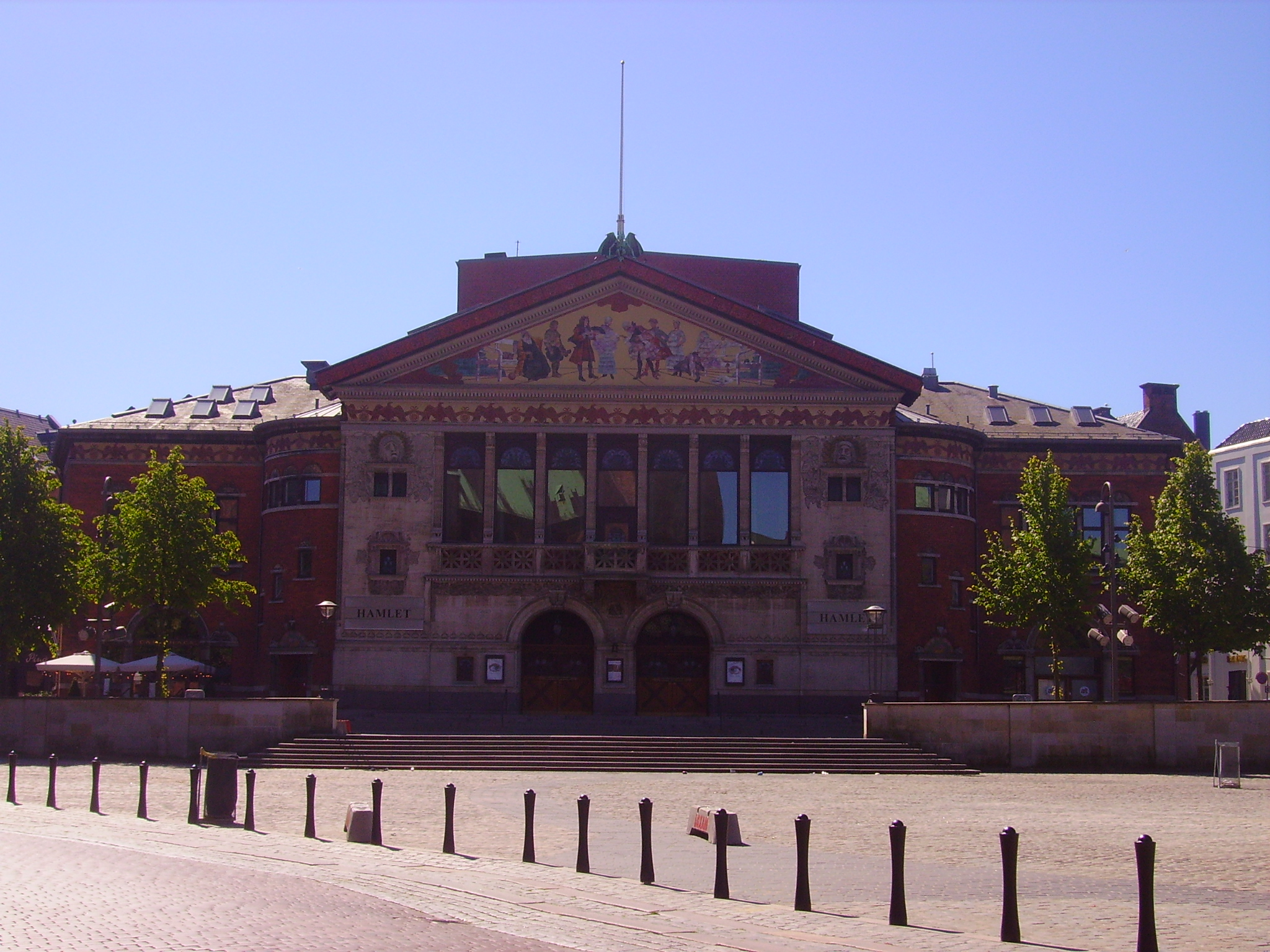 Theatre, Aarhus